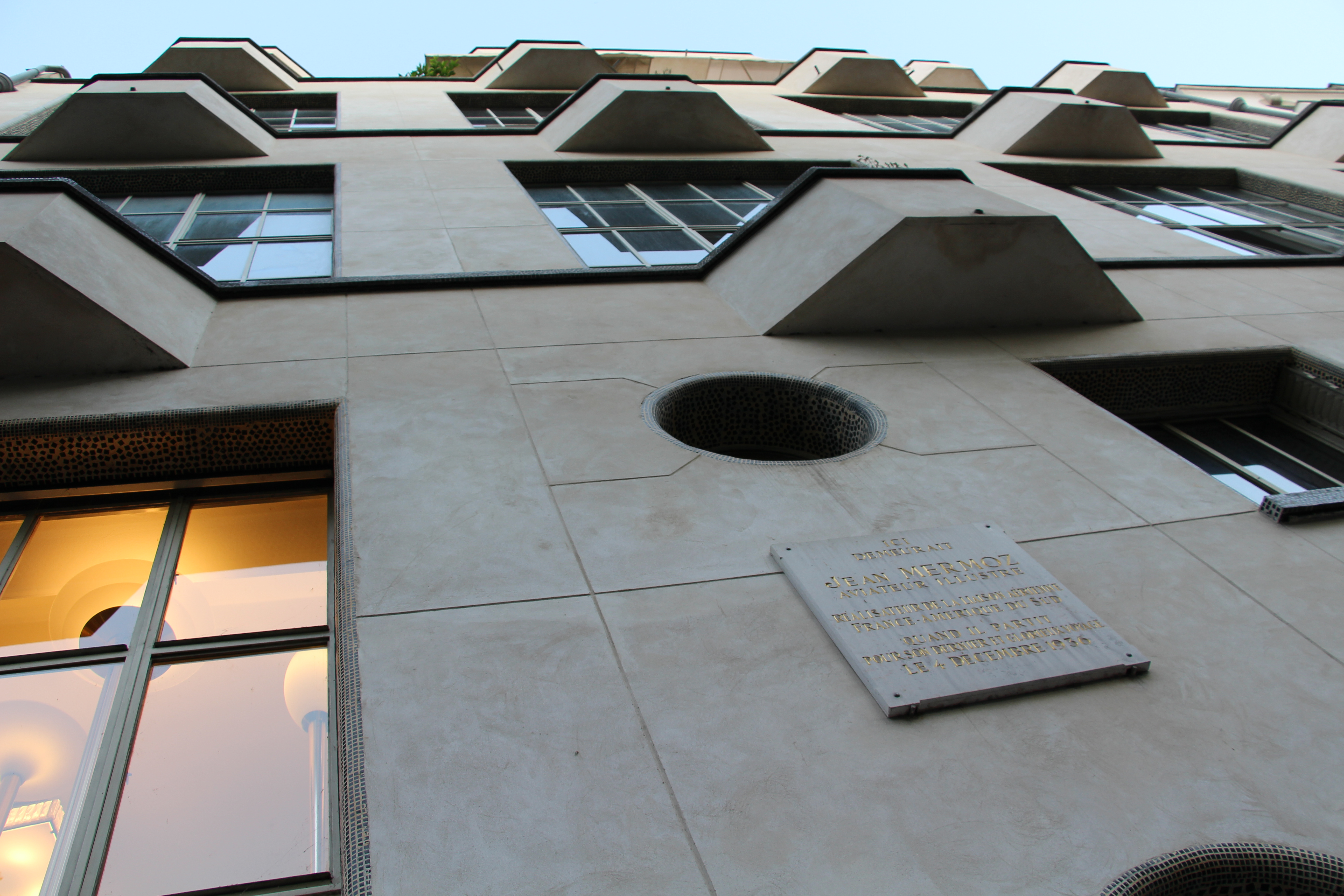 Parc de Montsouris | Rue de la Cité Universitaire Building commissioned by Jean Perzel for his workshop and art lighting shop which are still installed there. Arch. Michel Roux-Spitz 1930.